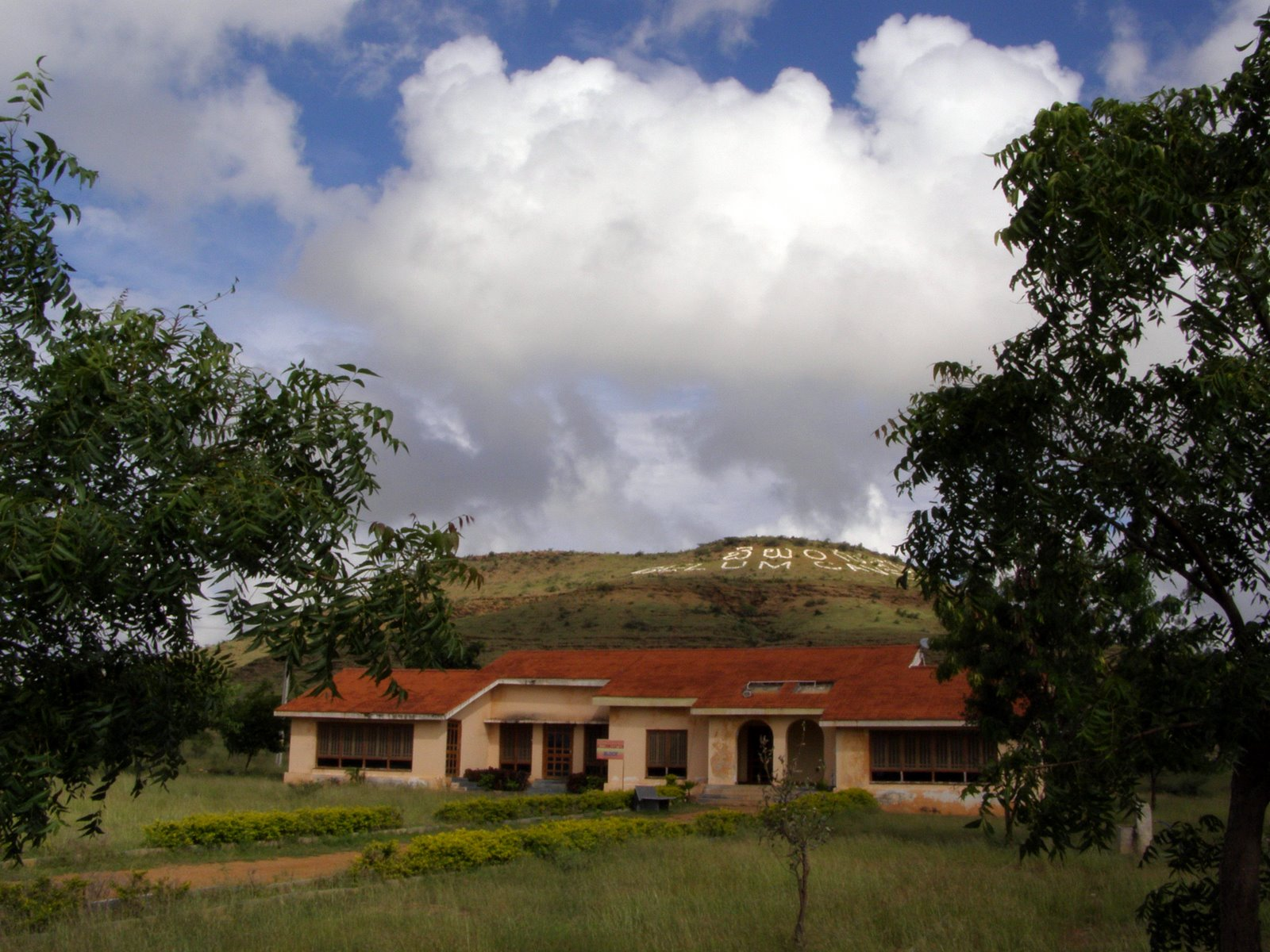 APTDC Punnani Hotel at Belum caves